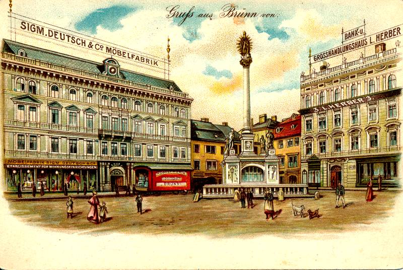 The former Kounic palace on the left standing on the ground where nowadays is the building of the Bank of Commerce. Brno, Moravia, Czech Republic